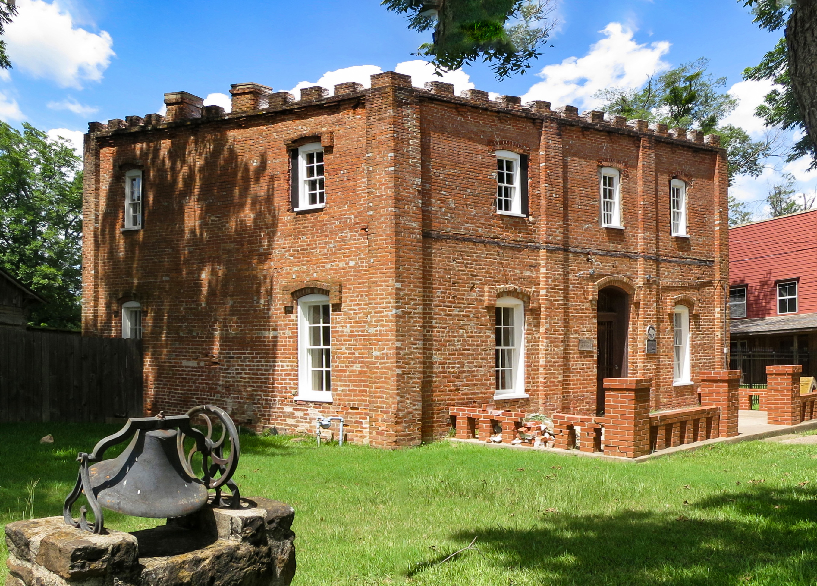 Built 1857 to meet fortress-like specifications: interior walls are 18 inches thick, outer walls, 30 inches. Constructed of brick and oak timbers. Prison, upstairs, had floor of thick oak planks, with subfloor of iron. Jailer lived on ground floor. Folklore says the notorious gunman John Wesley Hardin once spent a night here. This was used as a jail until 1913. It became a museum in 1967.